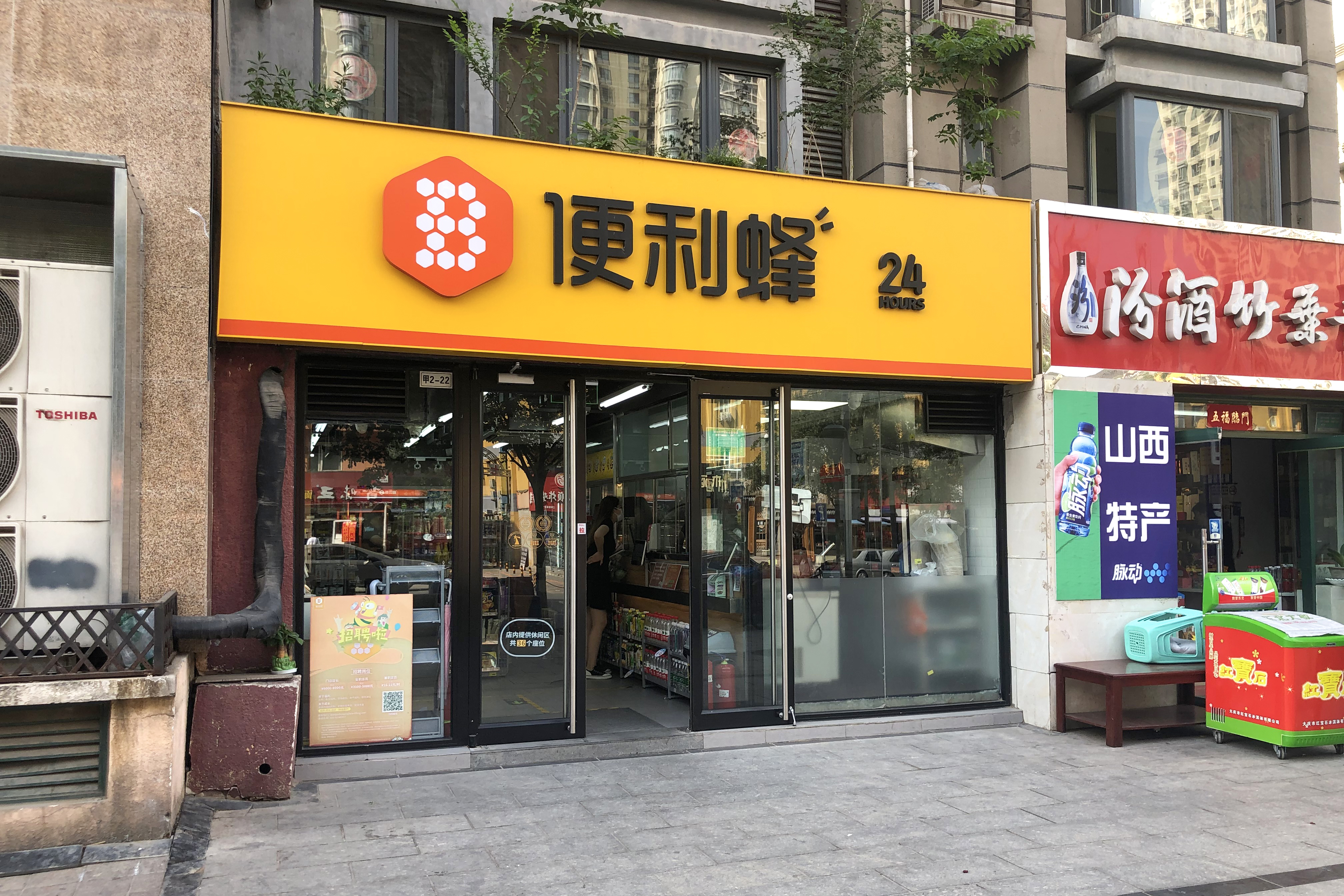 This is a native convenience store, also known as "Blibee".